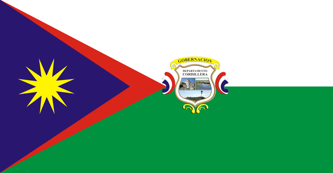 Cordillera Flag